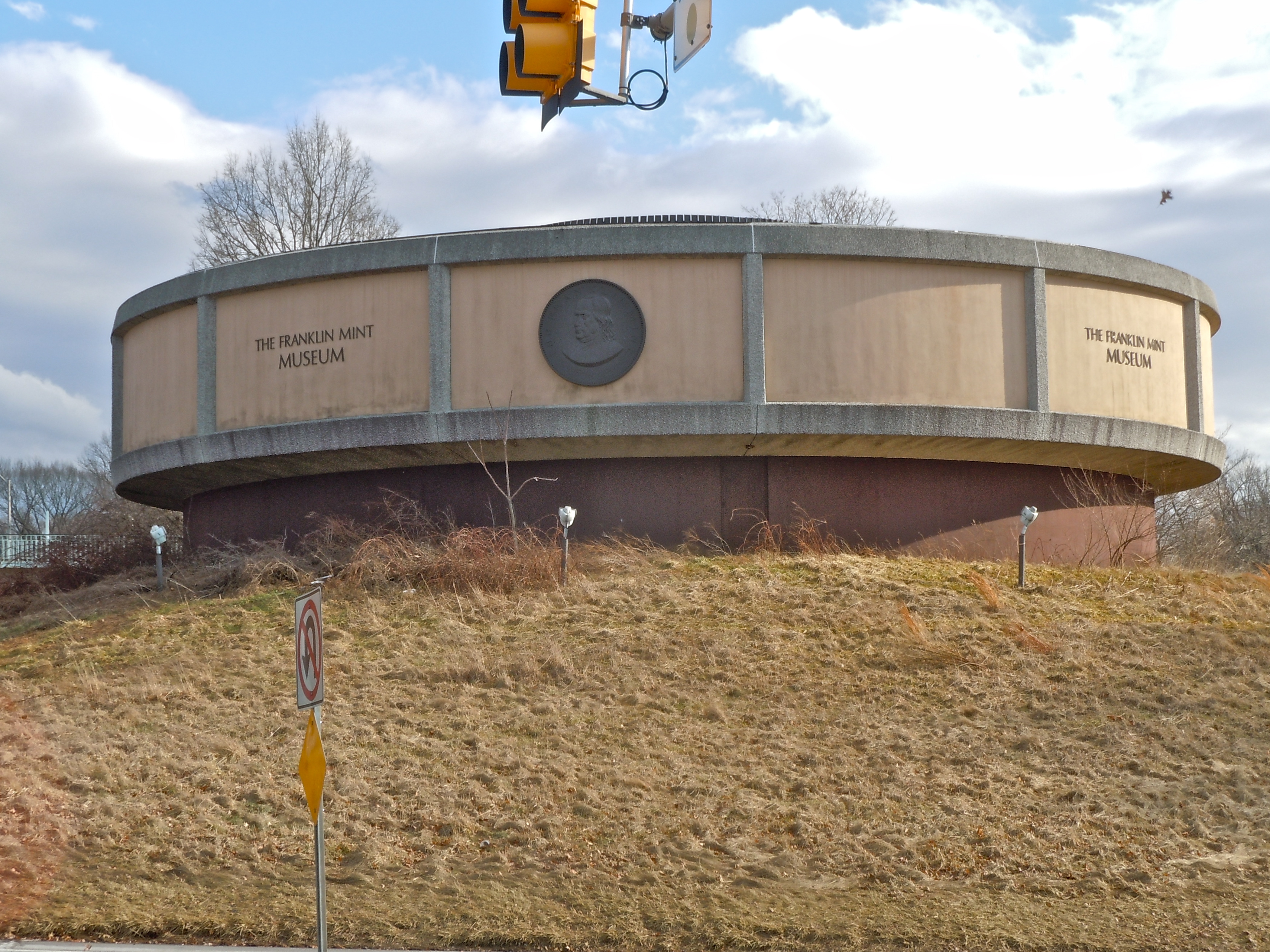 Empty "Franklin Mint Museum" building in "Wawa, PA" south of Media, Pennsylvania on Baltimore Pike (US 1) and Valley Drive, notheast corner (NEC). Building looks like it was built in 1960s and is across the street from the old Wawa Dairy Farms building. Franklin Mint is now defunct, but the brand name is used occasionally.